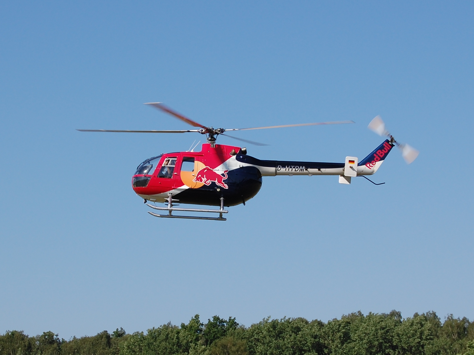 Bolkov Bo-105 - special aerobatic version of german helicopter on Goraszka Airshow